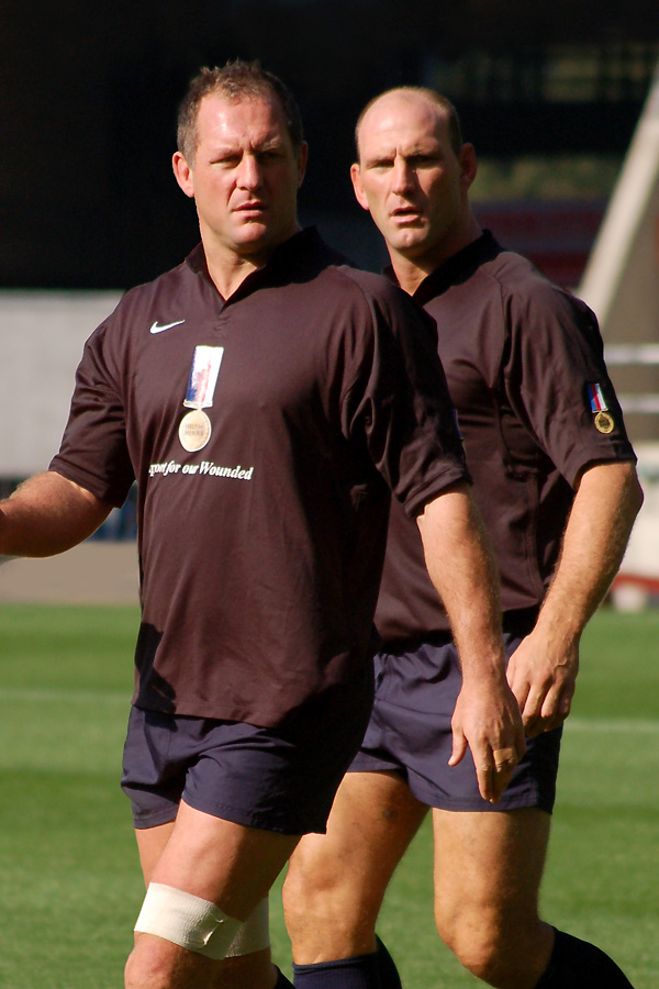 Lawrence Dallaglio, Richard Hill